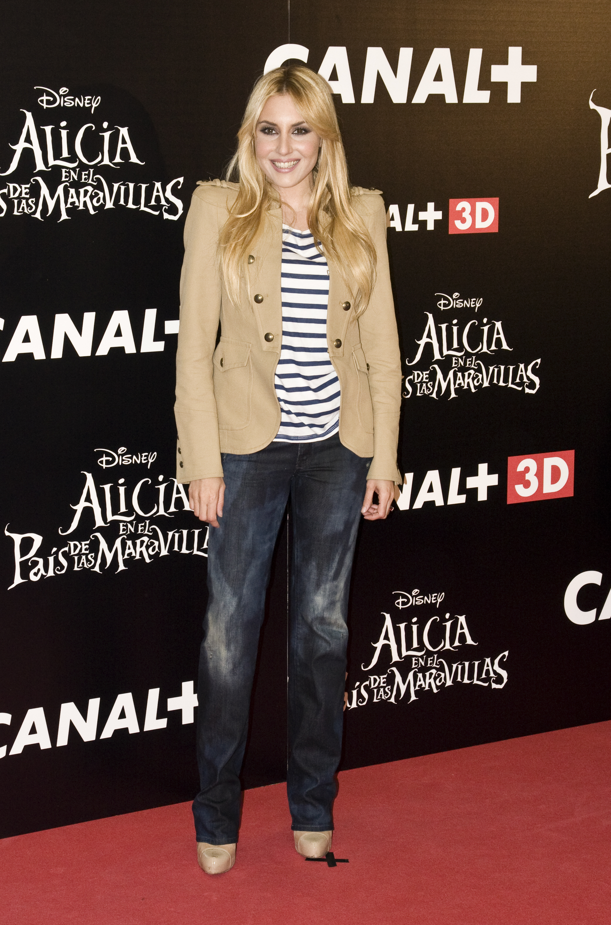 Berta Collado Spanish TV presenter at the photocall of Alice in Wonderland in 2010.